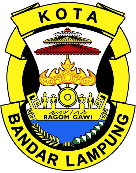 Shield of the city of Bandar Lampung (Indonesia)